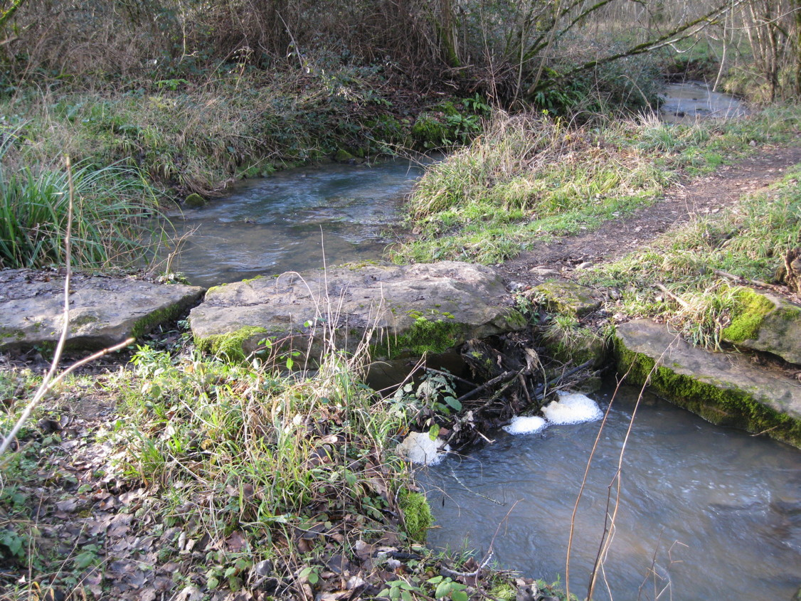 Footpath near a small stone bridge on the stream of Cazelle upstream to the place called Source Salmière in Alvignac (Lot, France